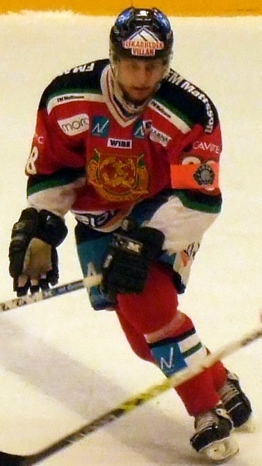 Czech ice hockey player Pavel Brendl of Mora IK (wearing home jersey) in E.ON Arena, Timrå, Sweden during the Swedish Elite League game (Timrå IK-Mora IK 1-1).